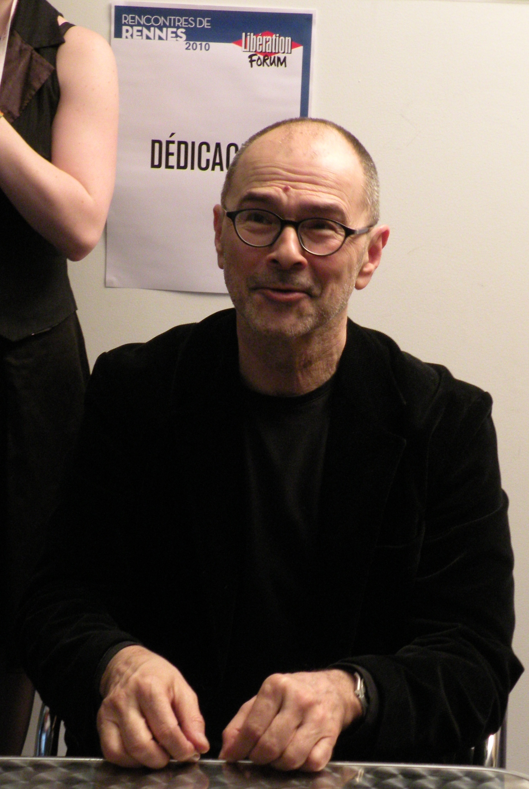 French sociologist Alain Ehrenberg during « Forum Libération 2010 » in Rennes.